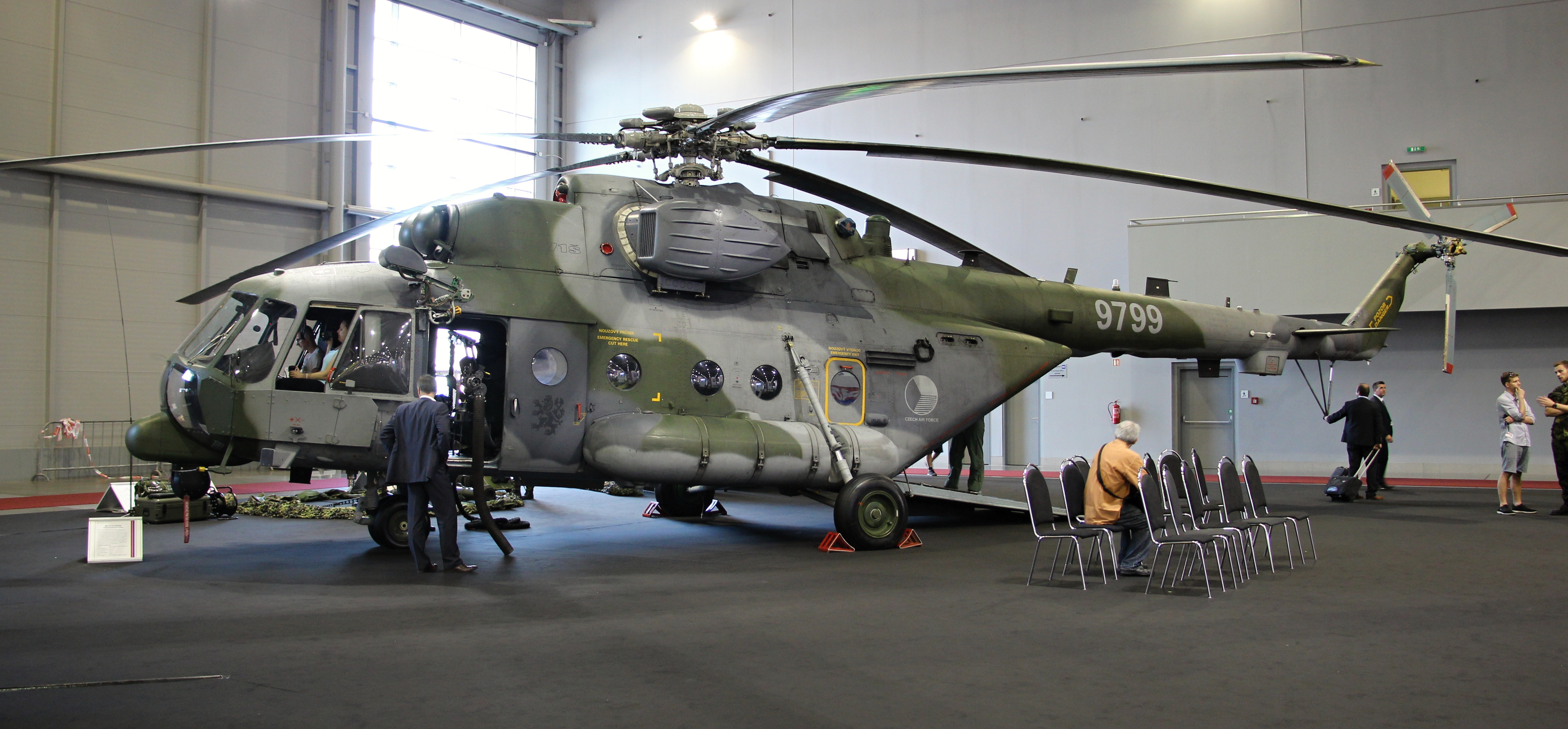 Mi-171Š of the Special Operations Air Task Unit (SOATU). IDET 2017, Brno Exhibition Center, Czech Republic.